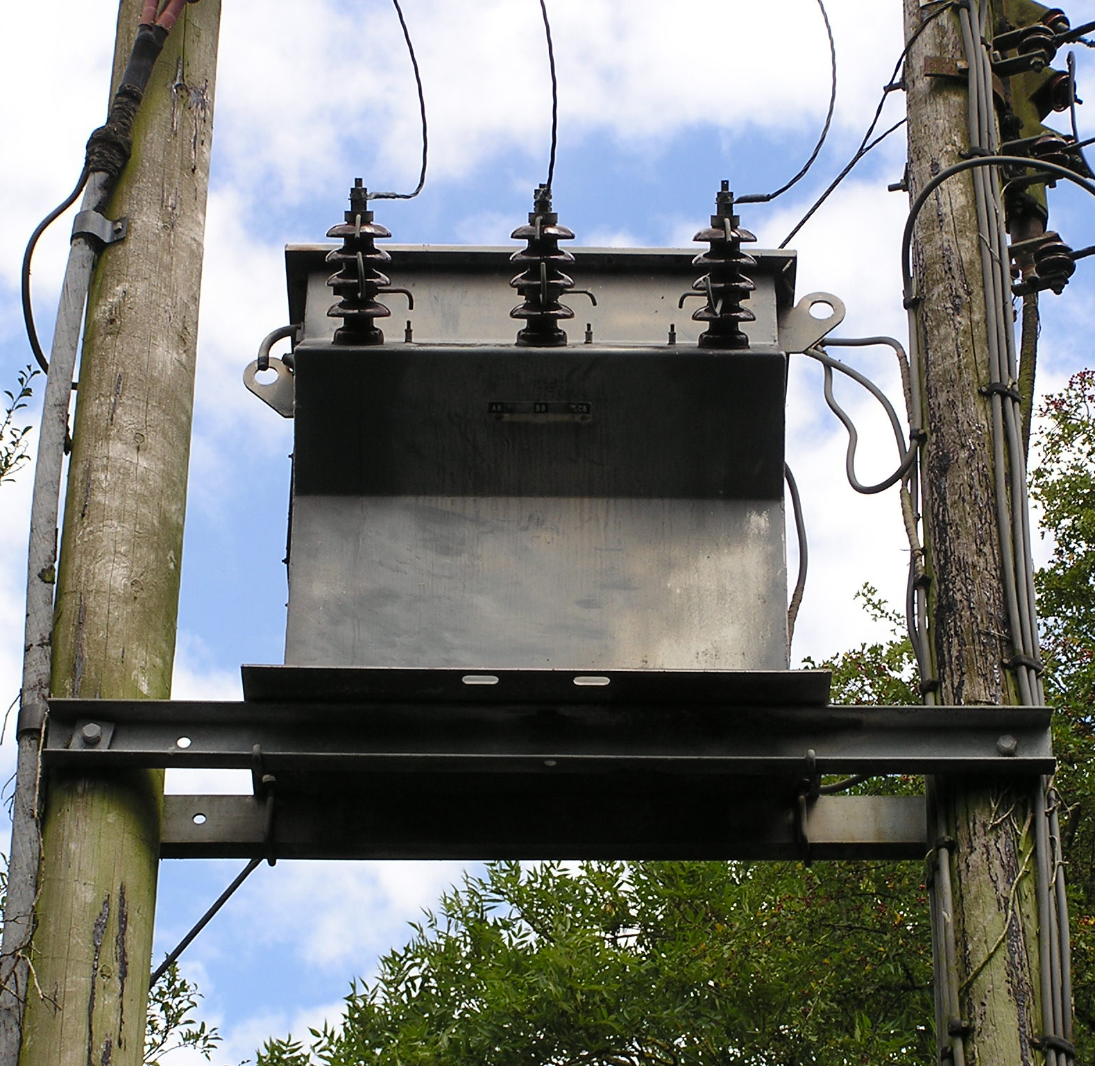 Three-phase pole-mounted power distribution transformer near Seaton, Devon, England